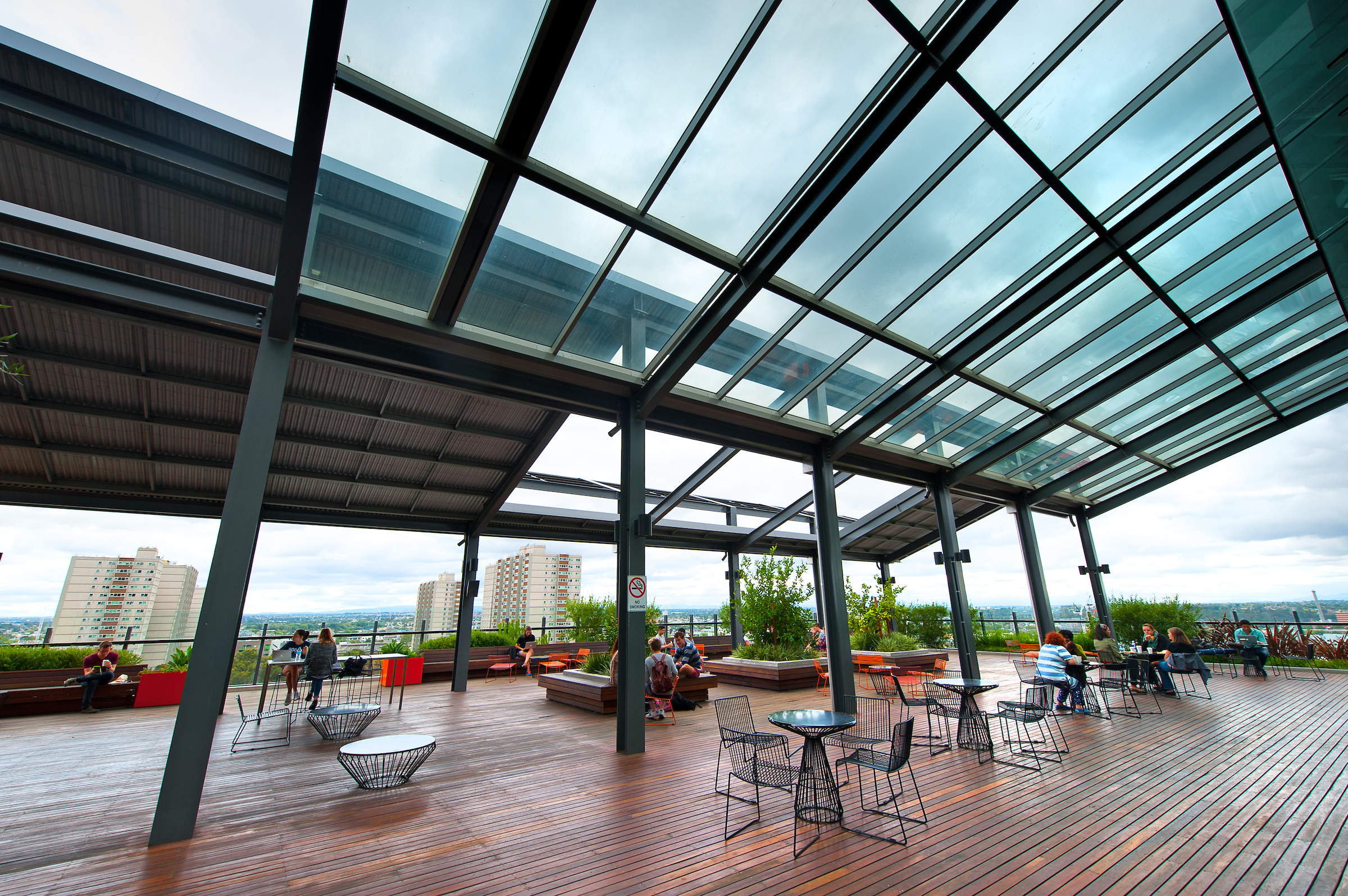 ACU Campus in Melbourne, VIC